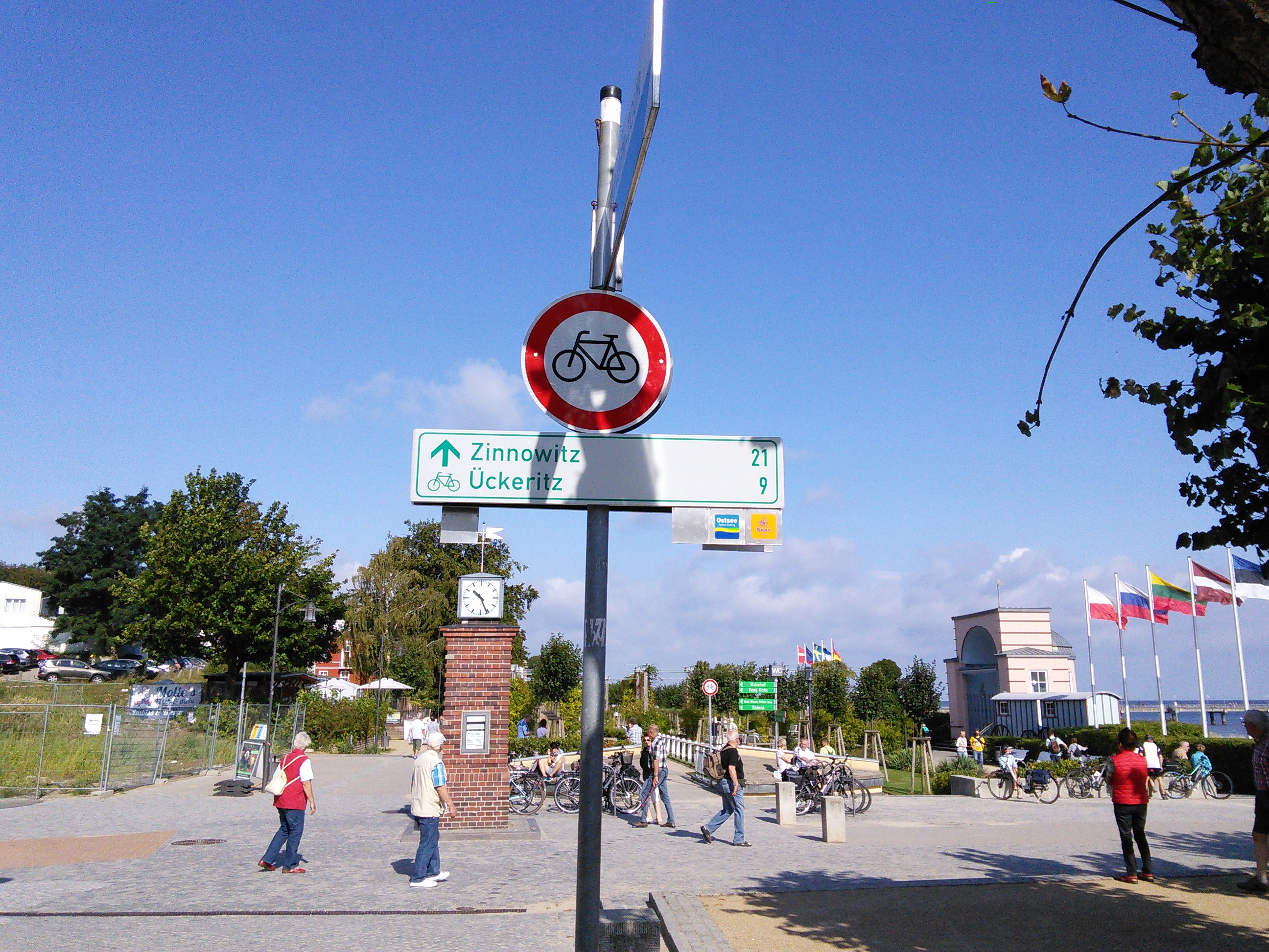 Traffic signs forbidding cycling on the Baltic Sea cycle route in Bansin, Germany